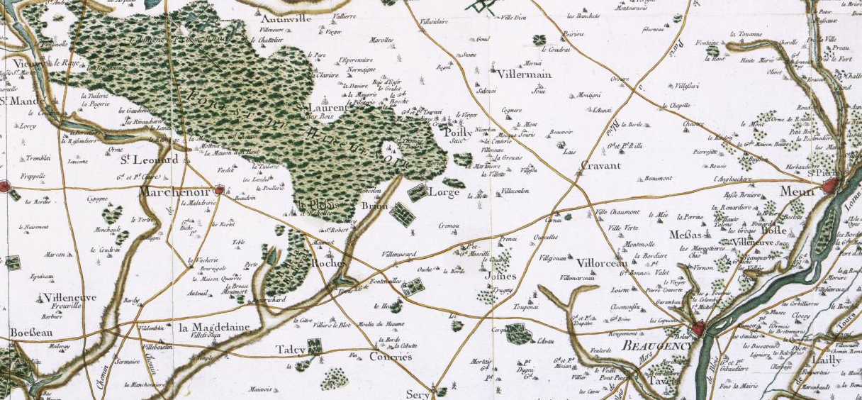 Portion of Cassini map (18th cent.) showing the Loire river and the towns of Meung-sur-Loire ("Meun") and Beaugency, south of the natural region of Beauce.